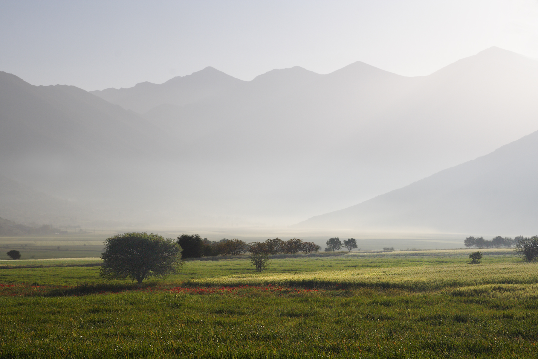 Valley-like plateau, a connection between the Levidi polje and the very large Tripoli Polje (28 km; a karst basin/depression in 670 m. Relatively frequent geological phenomenon in the karst basins of the northeast Peloponnese, Greece. The valley has no natural surface water outlet. Precipitation must be drained by ditches. When precipitation of winters is exceptionally rich, some agricultural fields may be wet or even flooded - depending on the capacity of the ditches and the small Sinas ponor.